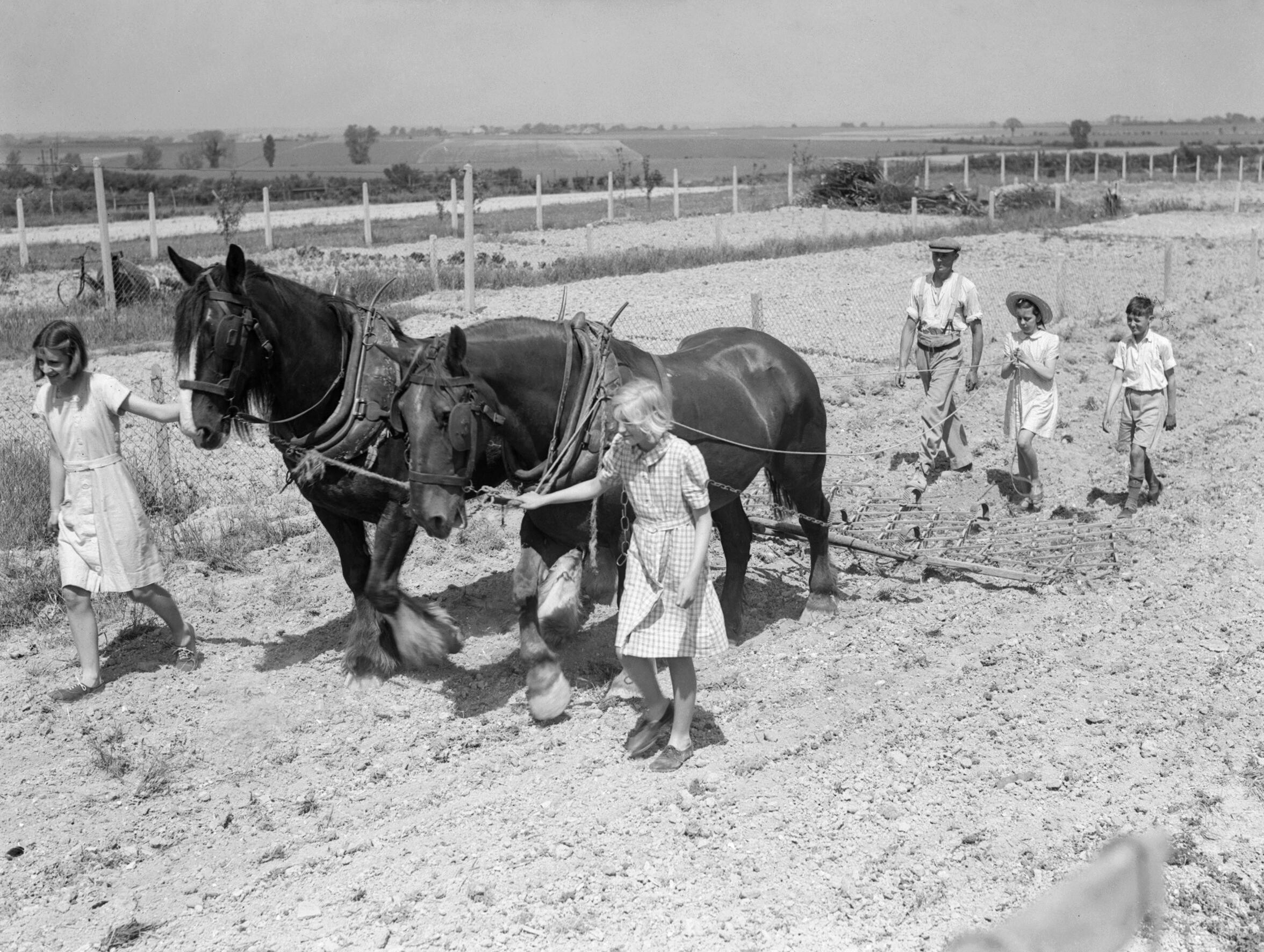 Jean Harwell (left) and Alice Norman lead horses 'Daisy' and 'Captain' as they harrow a field at Ashwell Merchant Taylors School near Baldock in Hertfordshire, 1942. Jean Harwell (left) and Alice Norman lead horses Daisy and Captain in a spot of light harrowing at their school in Ashwell, just north of Baldock in Hertfordshire. Two other children, and the farmer from whom the horses have been borrowed, follow along behind, enjoying the sunshine whilst they keep watch on the harrow. In return for the loan of the horses, the children have agreed to hoe the farmer's beans.